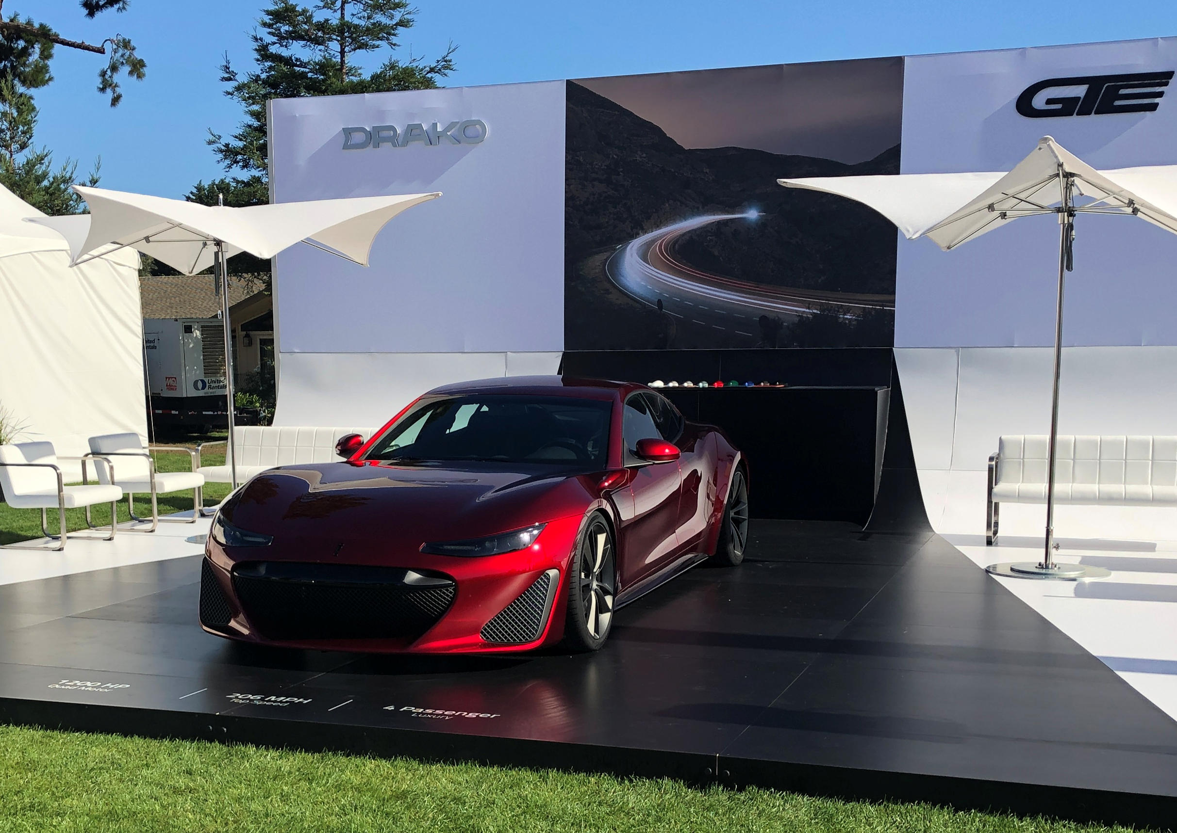 Drako Motors' Drako GTE all electric, four-passenger luxury supercar at initial launch at The Quail in August 2019